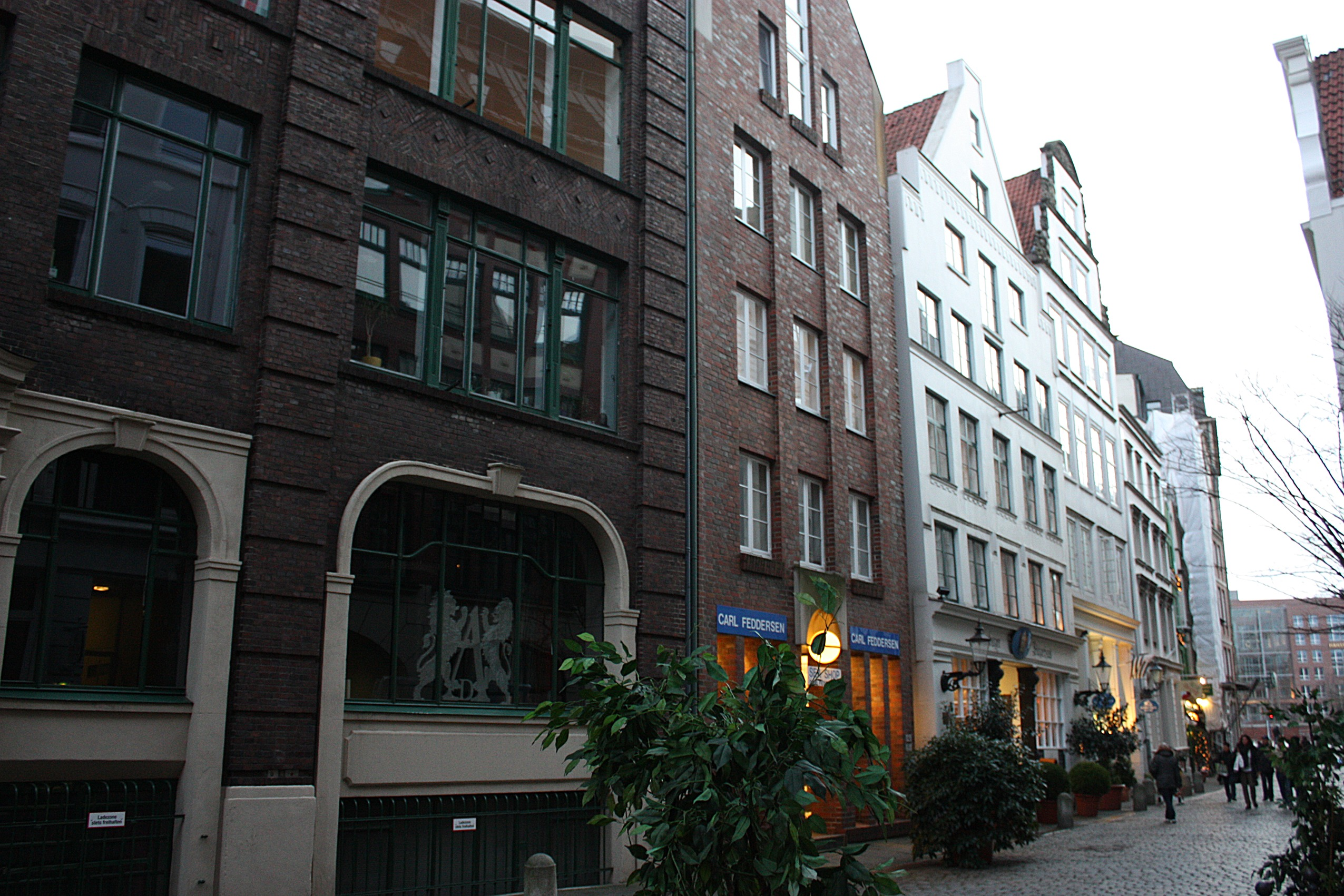 Hamburg, the Deichstraße